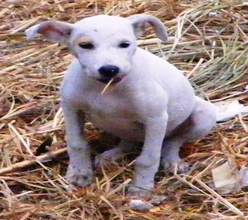 Chamuco Puppy.